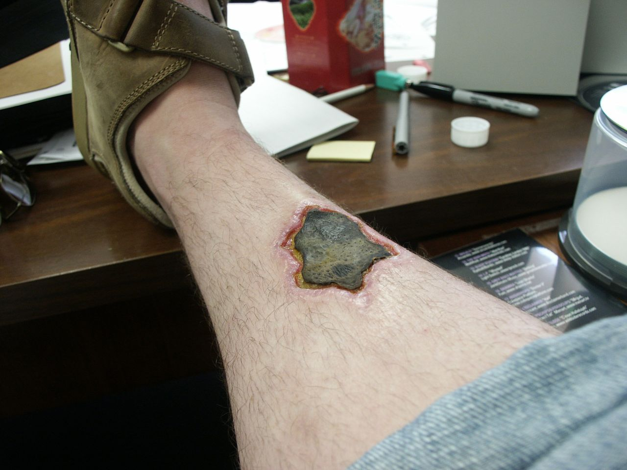 The leg of Jeffrey Rowland two months after having been bitten by a brown recluse spider. The flesh in the area of the bite is necrotized and was removed a month later.